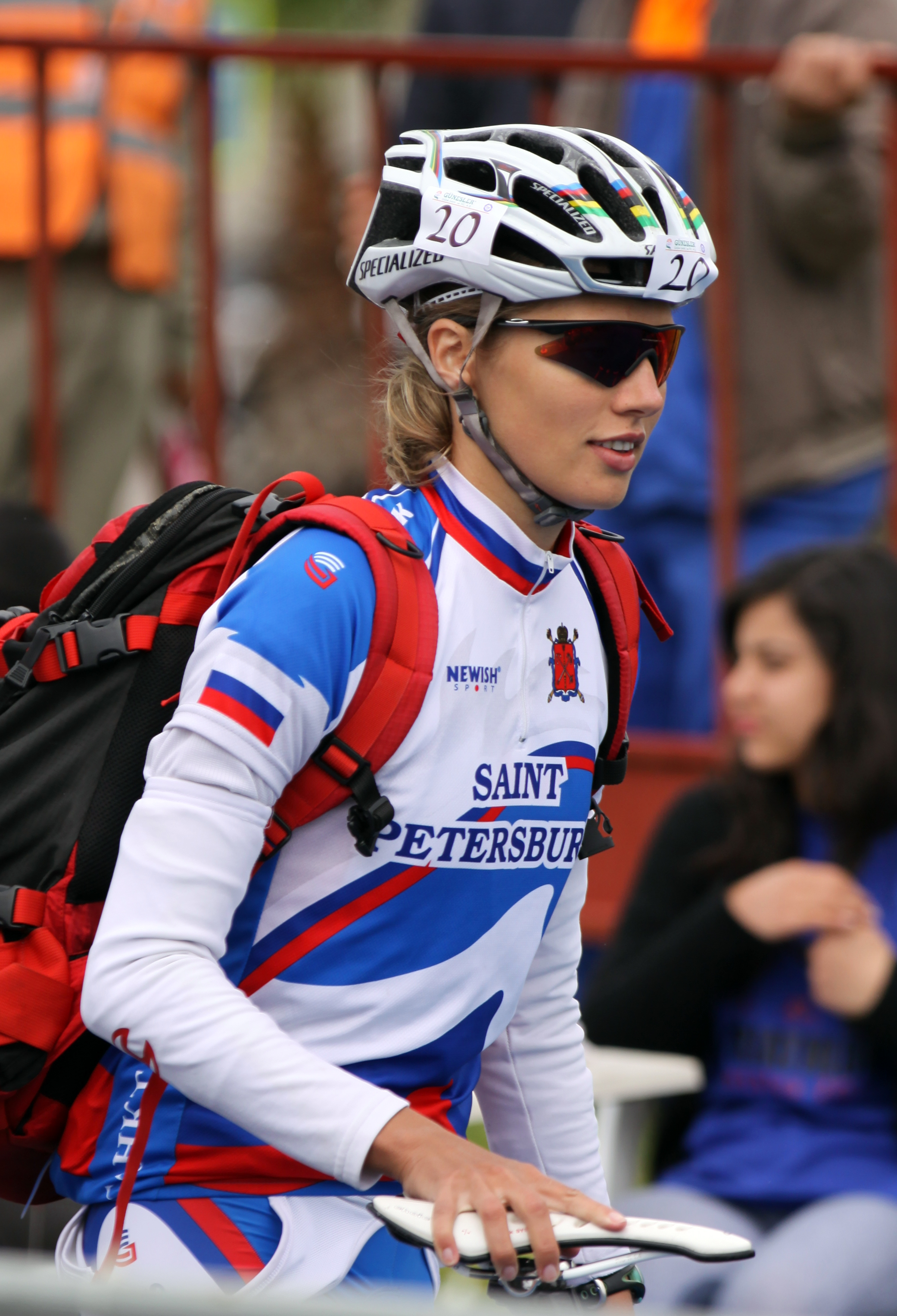 Natalia Shliakhtenko (Natalya Shlyakhtenko, Наталья Шляхтенко) at the European Cup triathlon in Antalya, 2011.